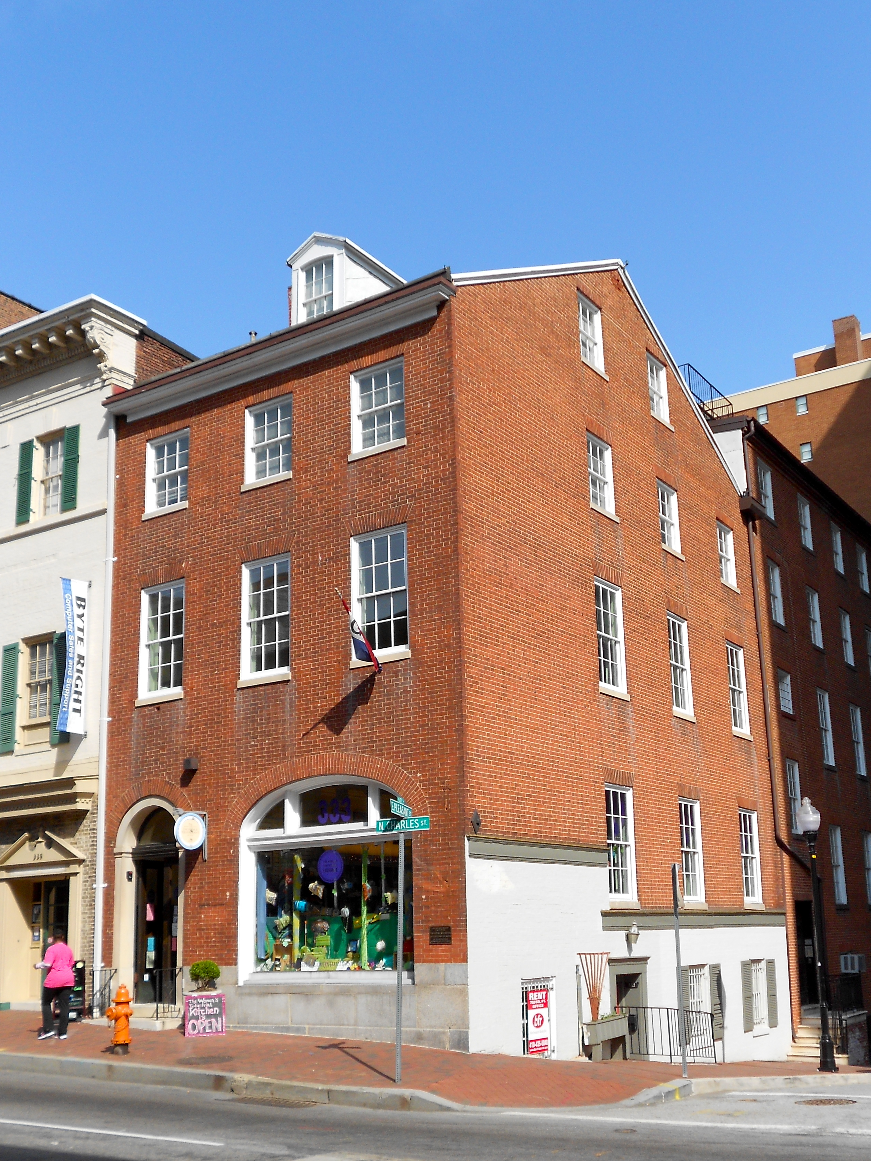 Woman's Industrial Exchange on the NRHP since December 19, 1978. At 333 N. Charles St. in central Baltimore, Maryland. Built as a house, converted into a shop (as well as apartments) for selling handmade goods by women.